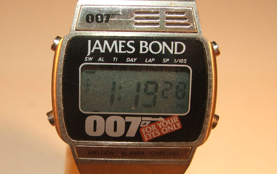 Digital watch bearing the words James Bond 007 For Your Eyes Only.